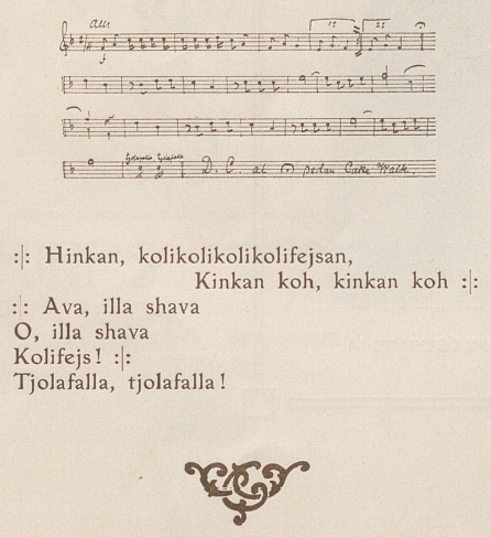 "The Nig--rs' Morning Song." From p. 21, "Fru Lundins inackorderingar, eller den nyaste kinematagrafen af Axel Engdahl" ("Mrs. Lundin's Lodgers, or The Newest Cinematograph" by Axel Engdahl; performed at the Folkteatern, 1905"). Earliest complete version of the "Ging Gang Goolie" song.